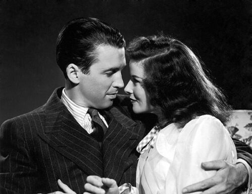 James Stewart & Katharine Hepburn in the American romantic-comedy film The Philadelphia Story (1940). See also film still. No copyright notice.